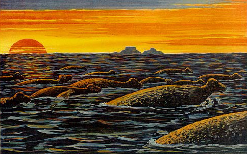 Tiere der Urwelt (Creatures of the Primitive World) Series 1 and 2 Illustrated by F. John (born/died?) Printed 1902 and 1906(?) Germany Series 2 Card 20 Rhytina (Steller's Sea Cow)